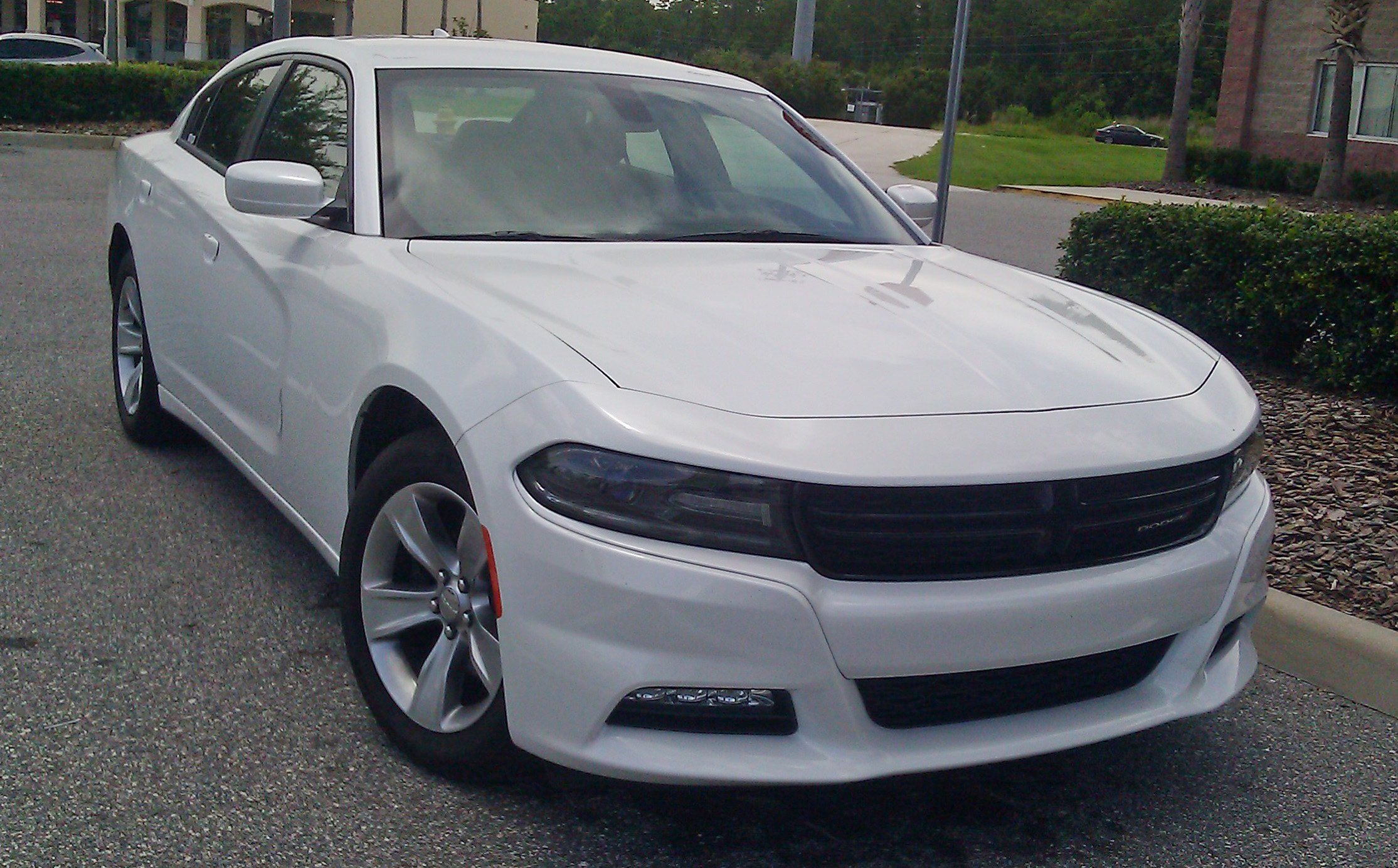 2015 Dodge Charger photographed in Kissimmee, Florida, USA.